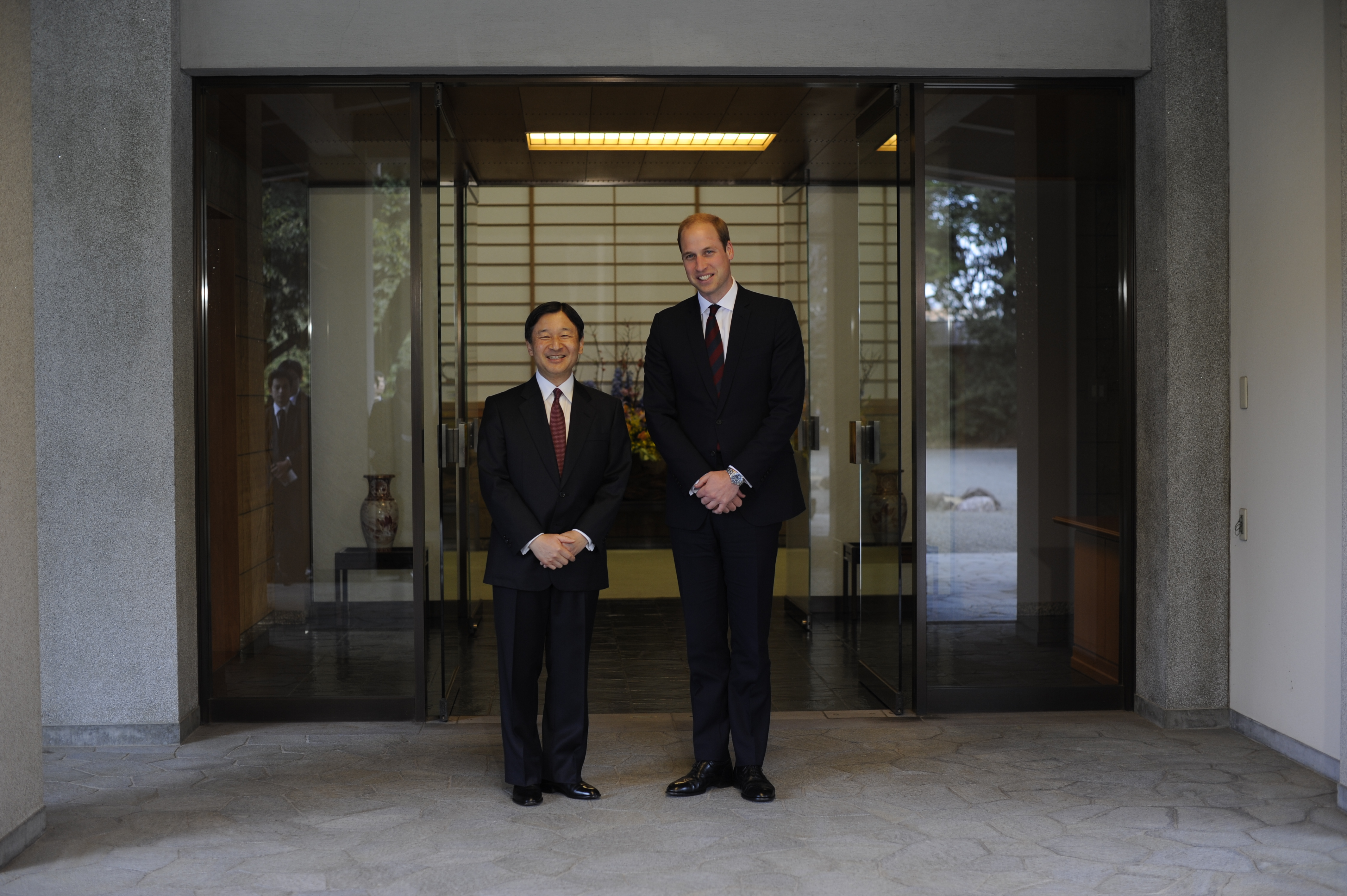 Prince William met Crown Prince Naruhito at the Crown Prince's Residence in Minato Ward, Tōkyō Metropolis on February 27, 2015.